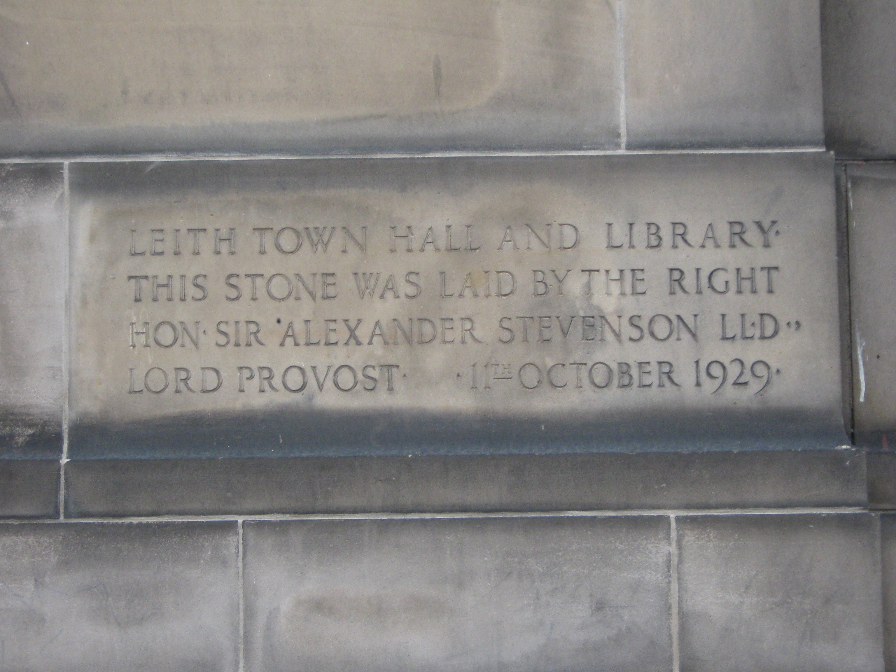 Leith library, Ferry Road. Edinburgh, Scotland. Location (OSM permalink)